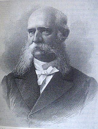 Seth Ledyard Phelps (1824-1885). Portrait circa 1885. In the public domain.